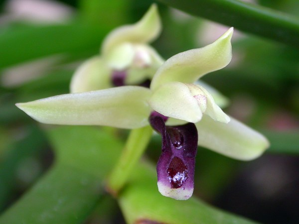 Heterotaxis equitans